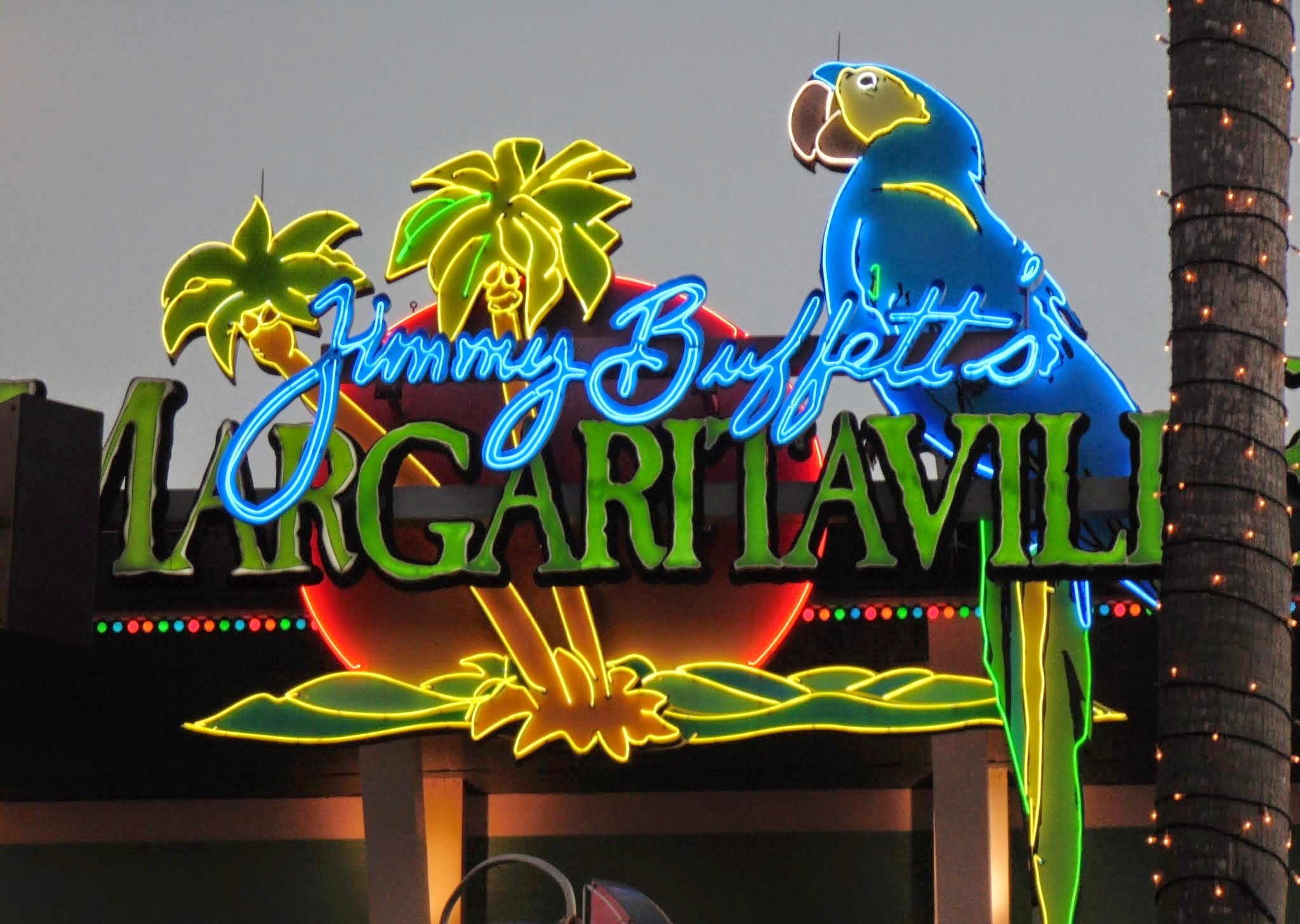 CityWalk, Universal Orlando